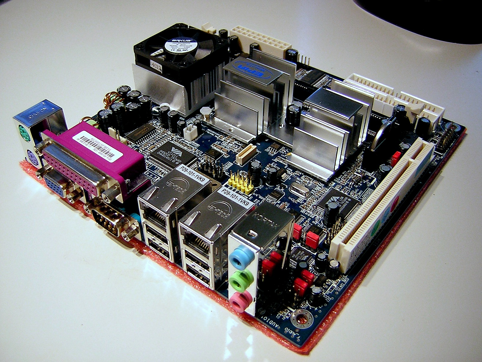 Mainboard VIA EPIA PD-10000